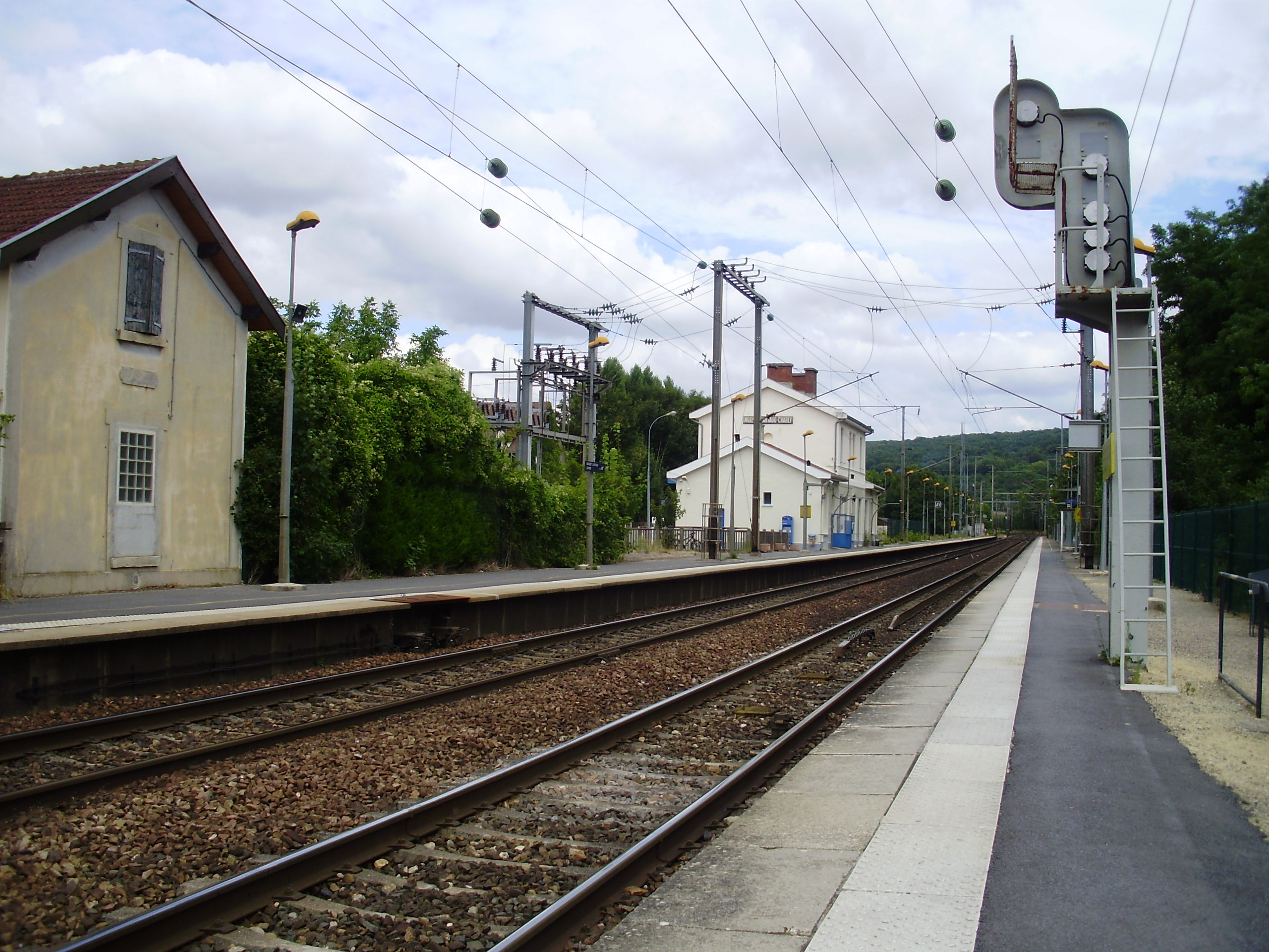 Nogent-l'Artaud - Charly station, in Nogent-l'Artaud, Aisne, France (view by looking to Château-Thierry)